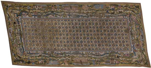 Bradford table carpet, needlework, V&A T.134-1928, 1600-1615